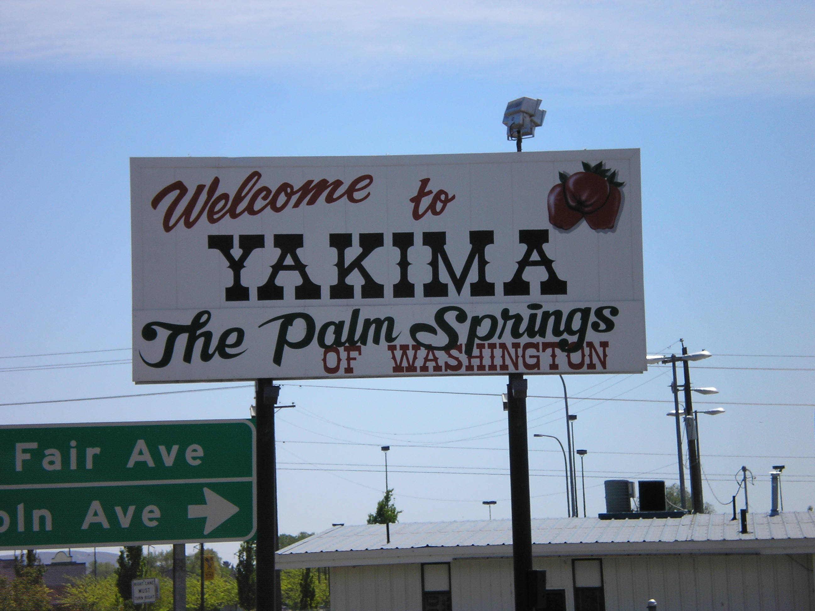 Picture of Yakima sign taken by AirLiner Note:Originally this sign was posted to celebrate the centennial but after the centennial celebration had finished, the owner of the sign (Trailwagons) removed the centennial dates and words and painted in its place "the Palm Springs". I have the original sign shown on home video and I do find it interesting that it shows the dates 1885-1985, but from what I've read here they state 1986 as being the Centennial year??.Mrhyak 06:56, 1 March 2007 (UTC)